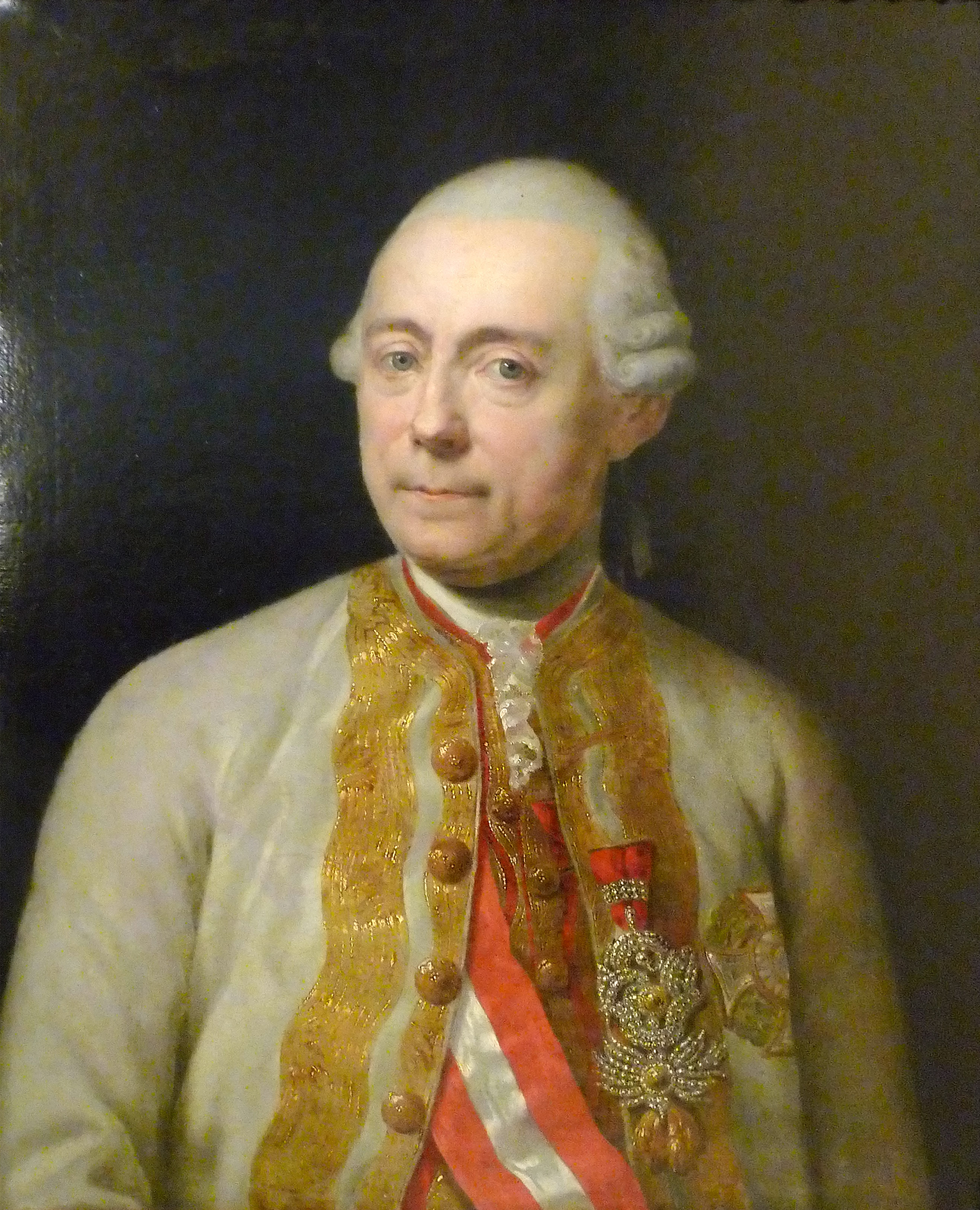 Franz Moritz Graf von Lacy, Austrian field marshal. Oil on canvas portrait, Heeresgeschichtliches Museum Wien.